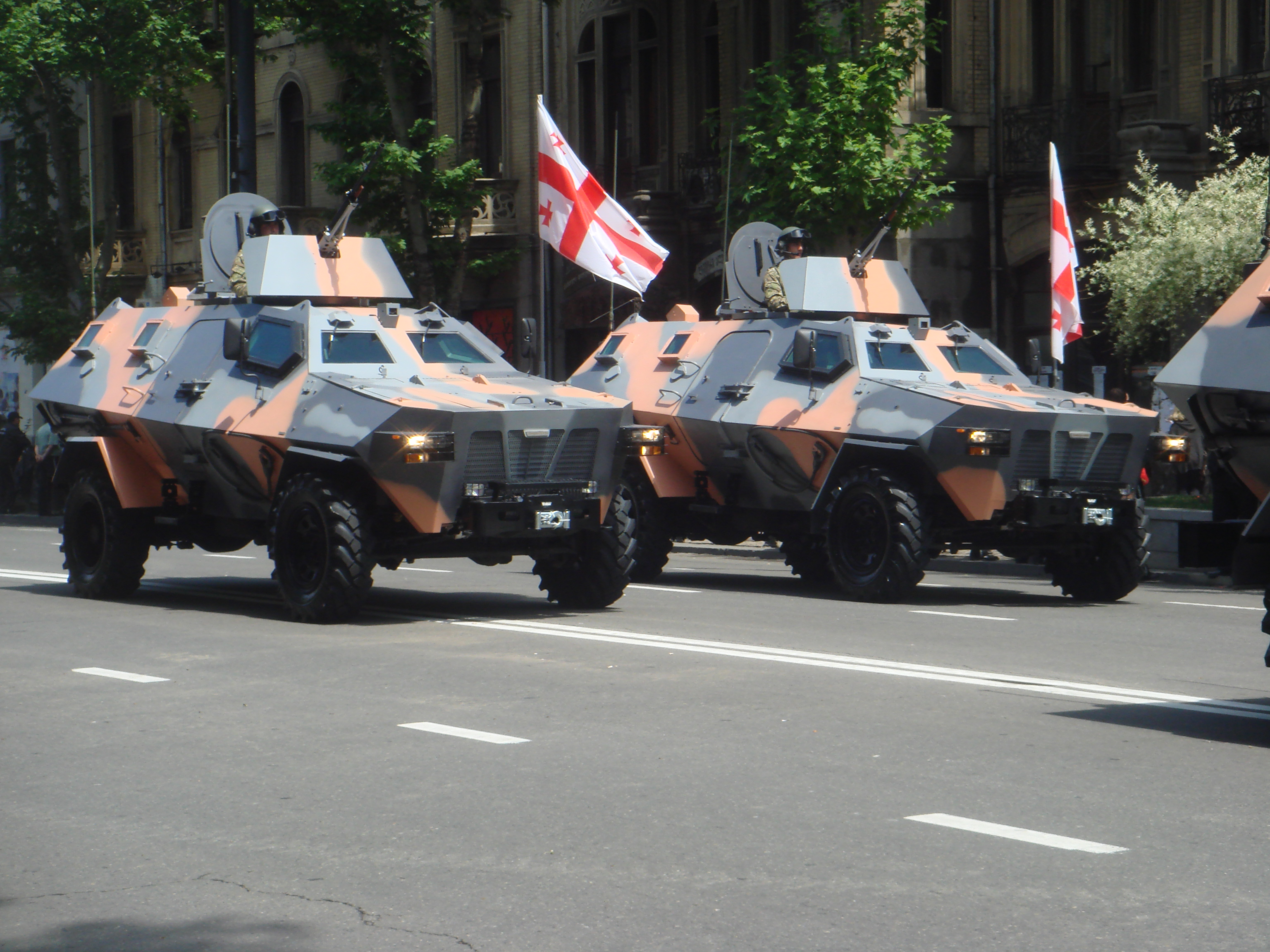 created this work entirely by myself.